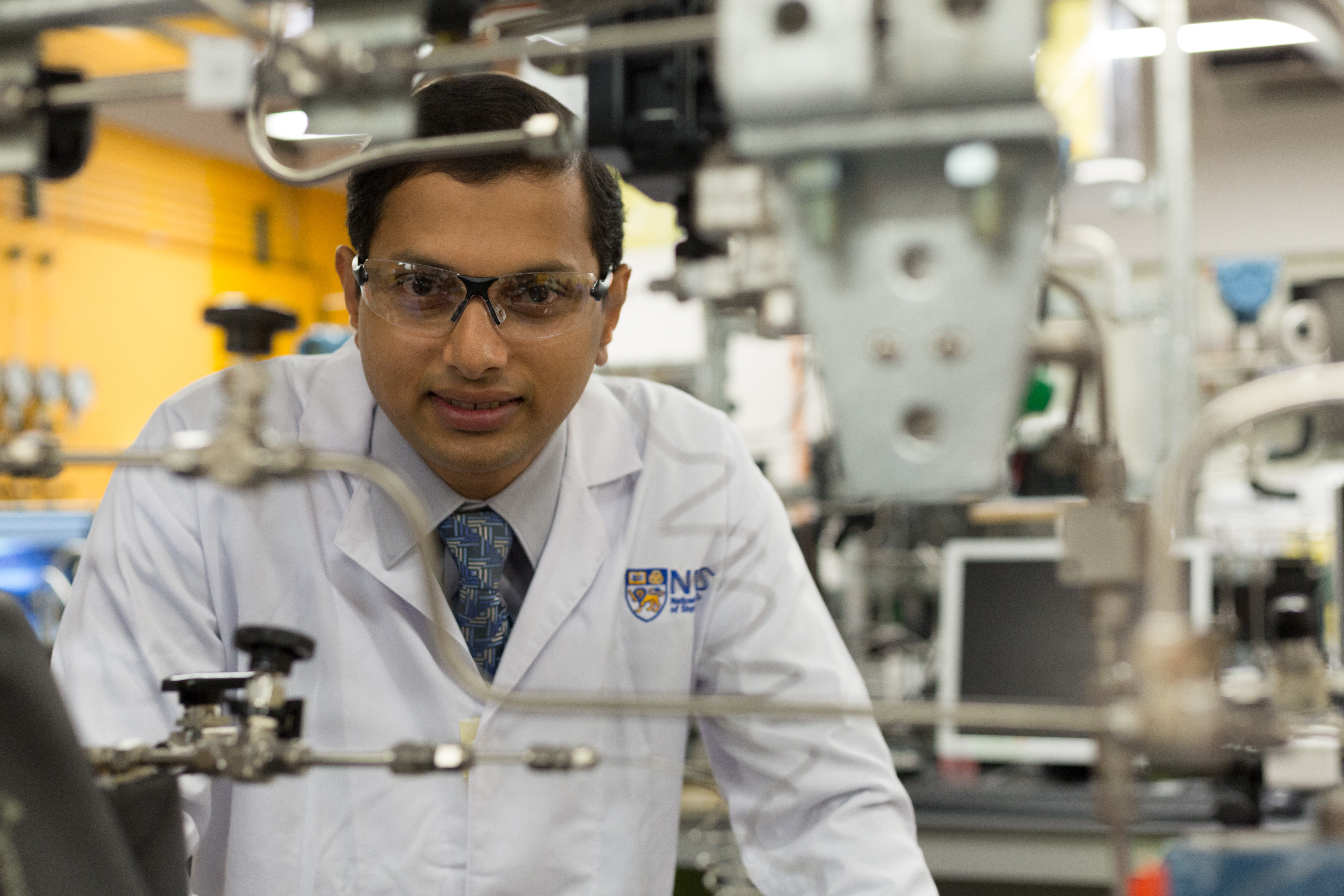 Prof. Linga in his lab